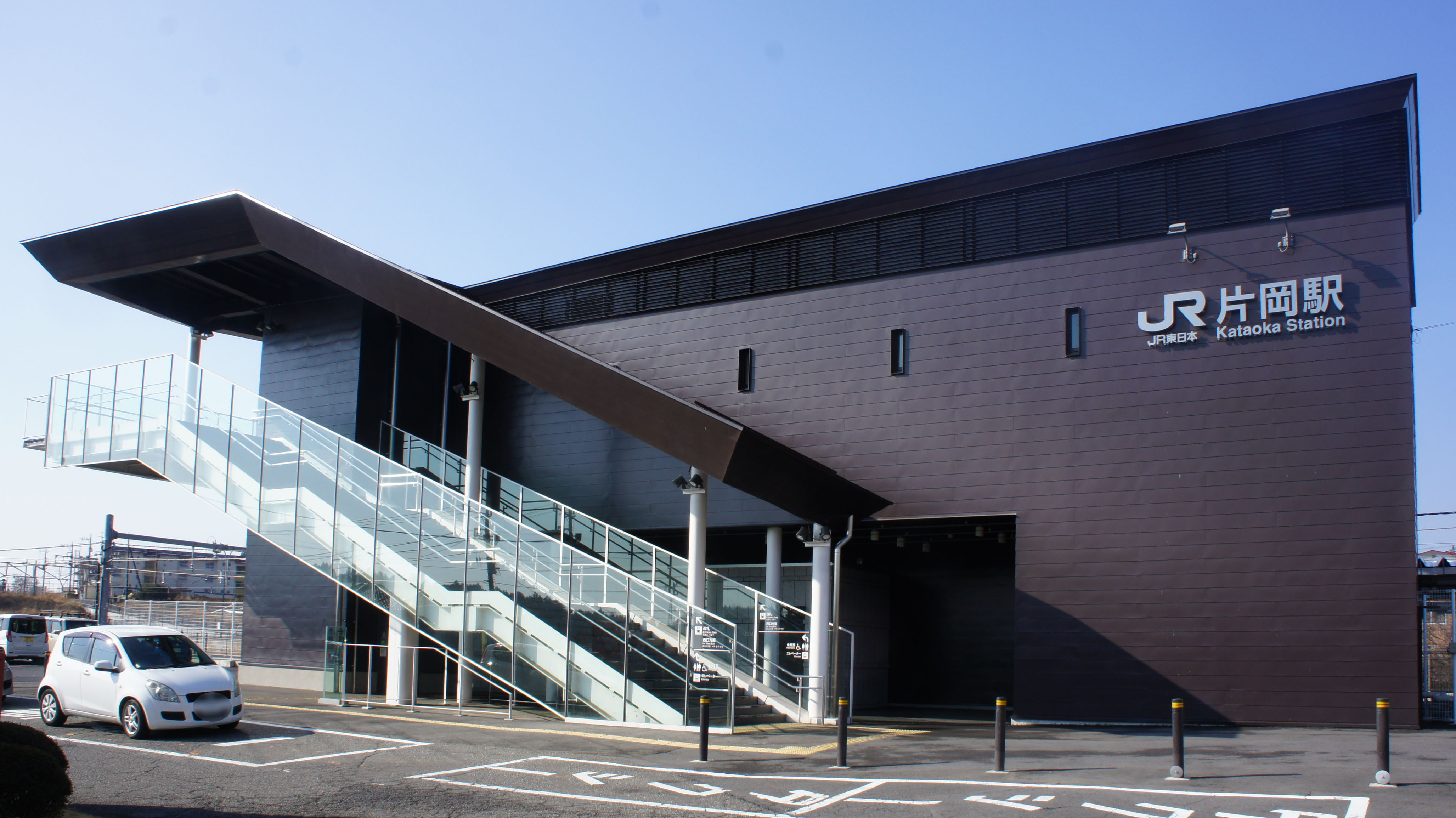 East Exit of JR Tohoku-Main-Line (Utsunomiya-Line) Kataoka Station Sony NEX-3